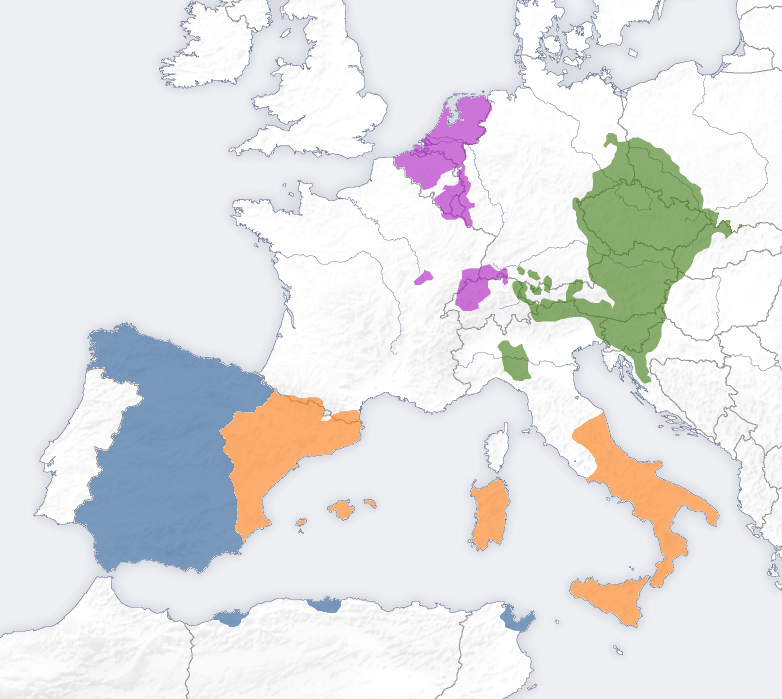 Map of Chales I of Castile and V of Burgundy, but without Melilla and Vélez de la Gomera (part of heritage of Isabella of Castille)